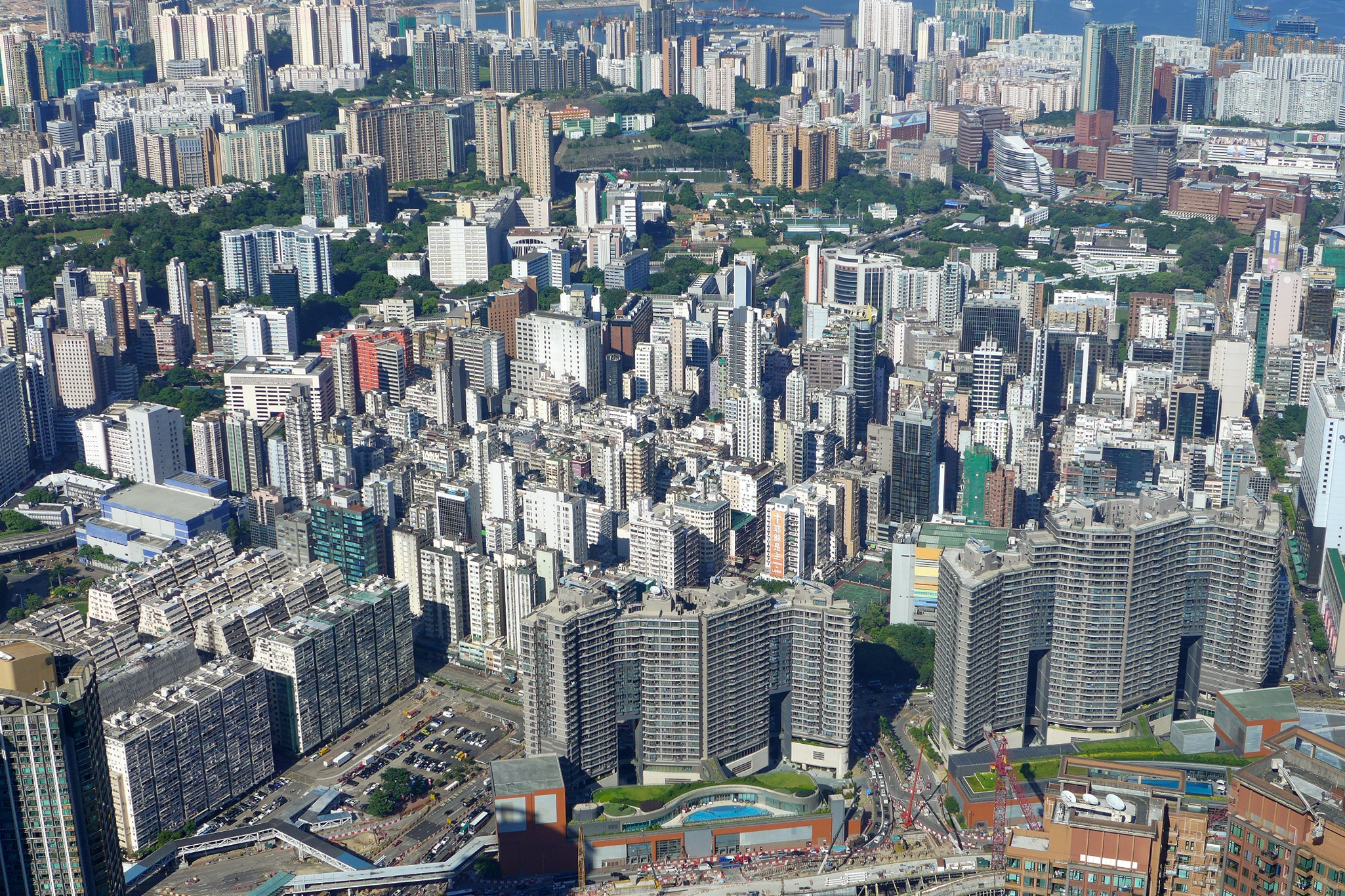 Jordan View from ICC